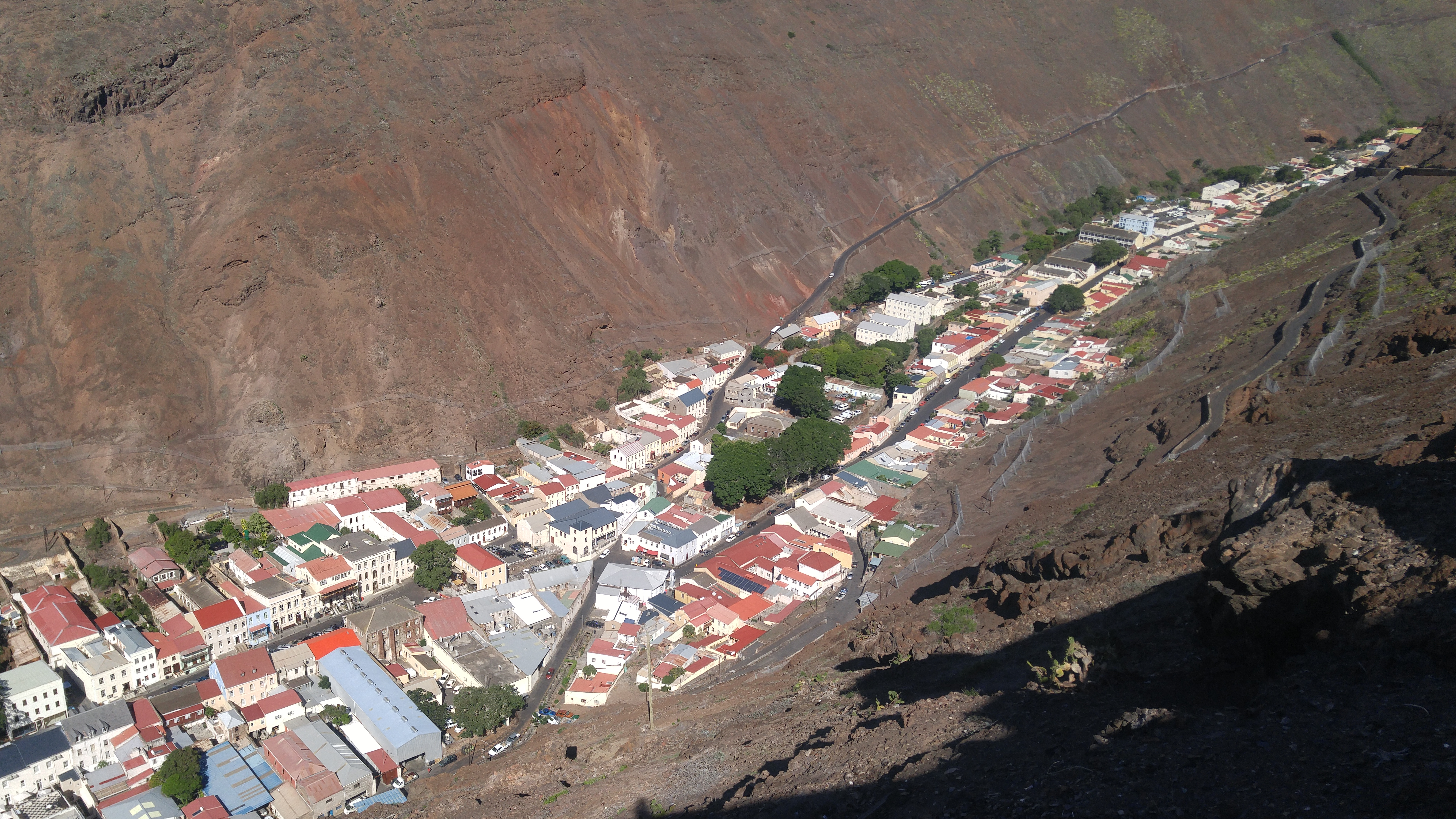 View of central Jamestown from the top of Jacob's Ladder, March 2020, showing how it fills the bottom of the James Valley